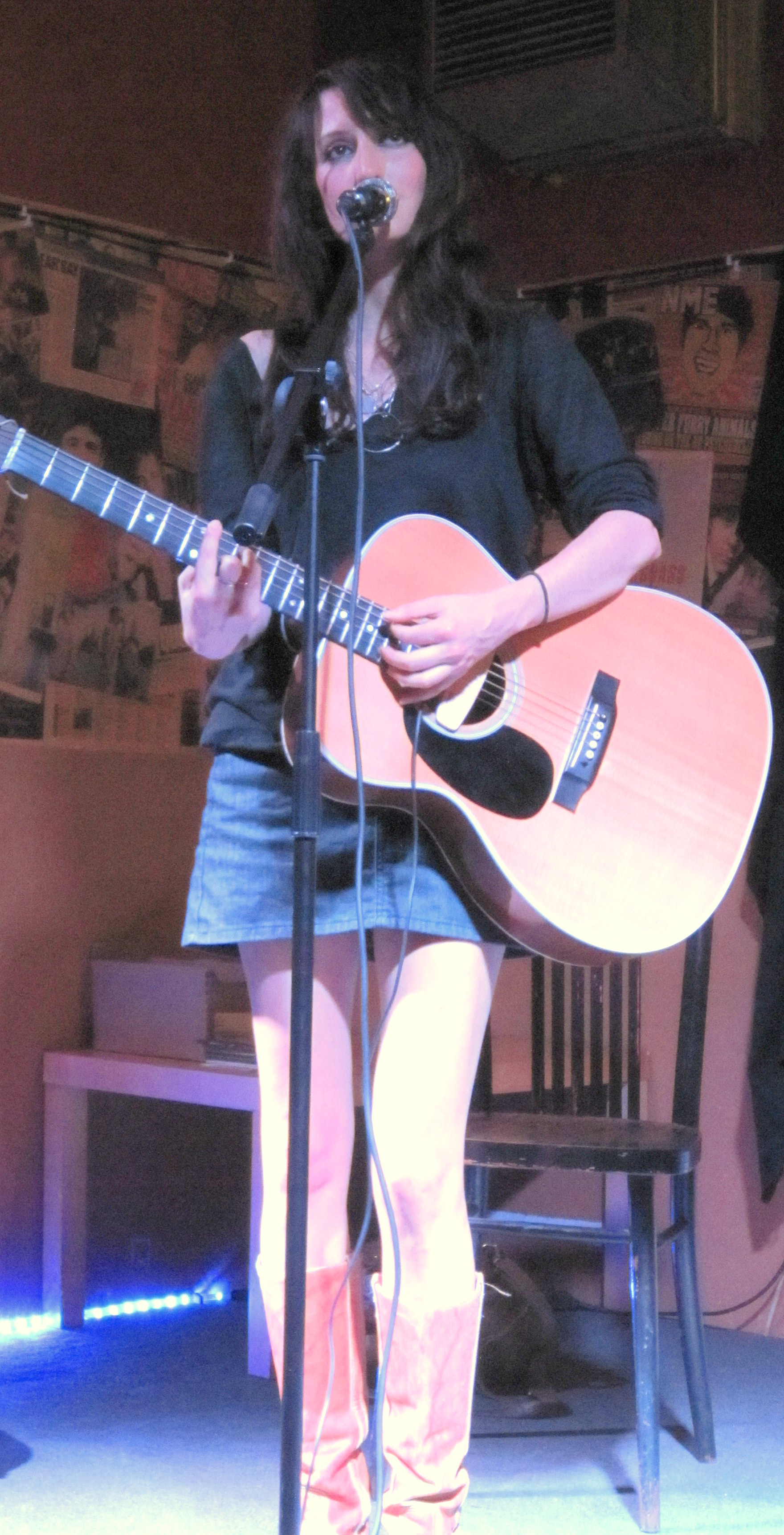 American singer/songwriter Maria Taylor in Munich, Germany, July 2011